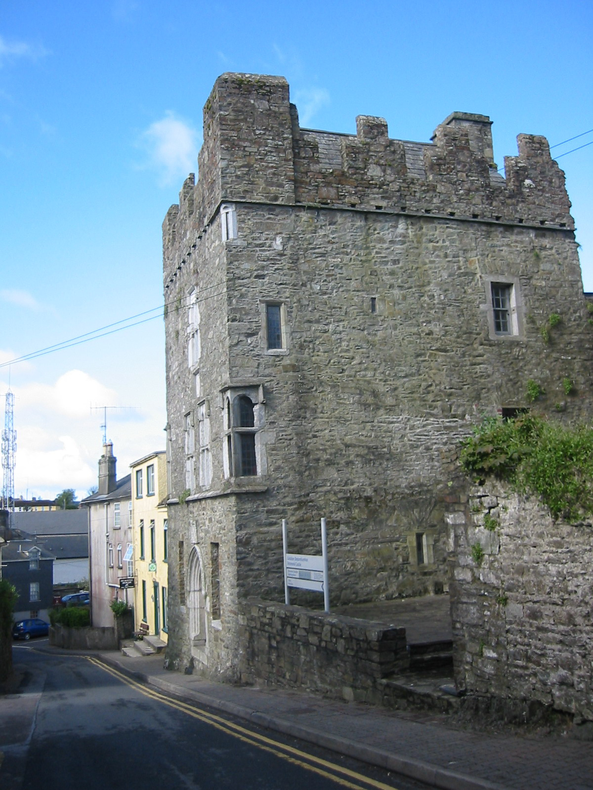 Desmond Castel in Kinsale, Ireland